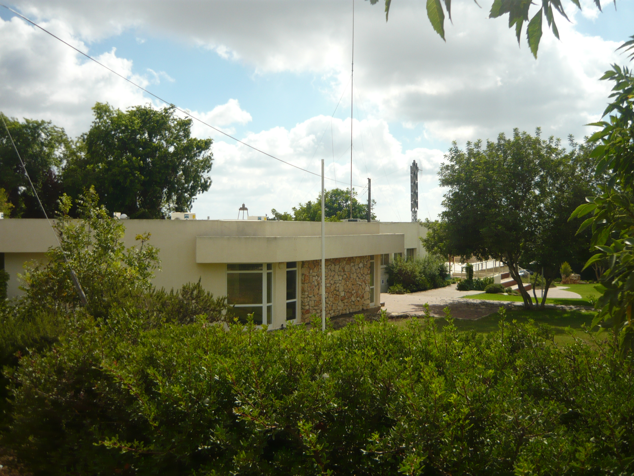 Public buildings in Manof מבני ציבור במנוף